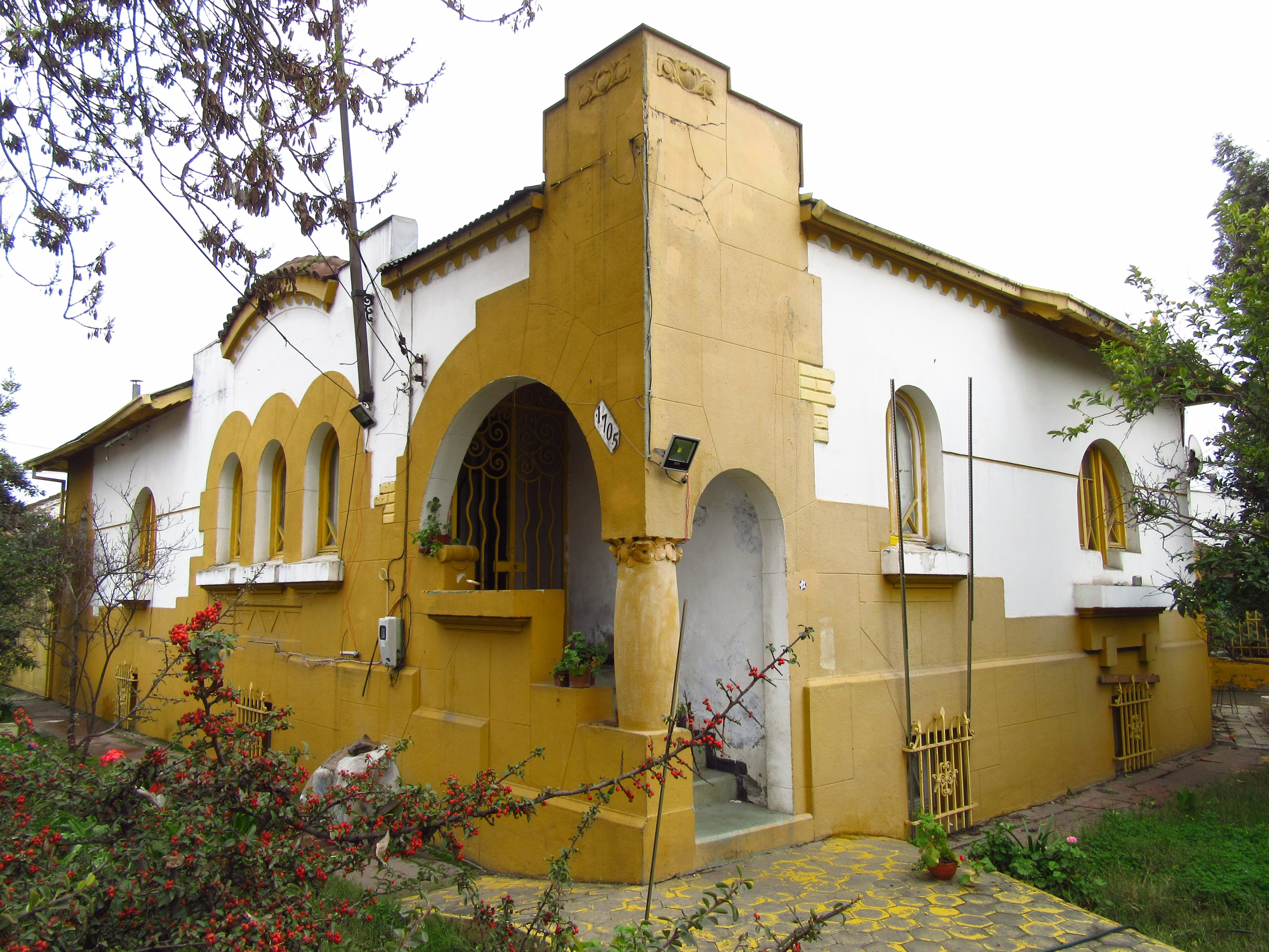 2017 in Santiago de Chile